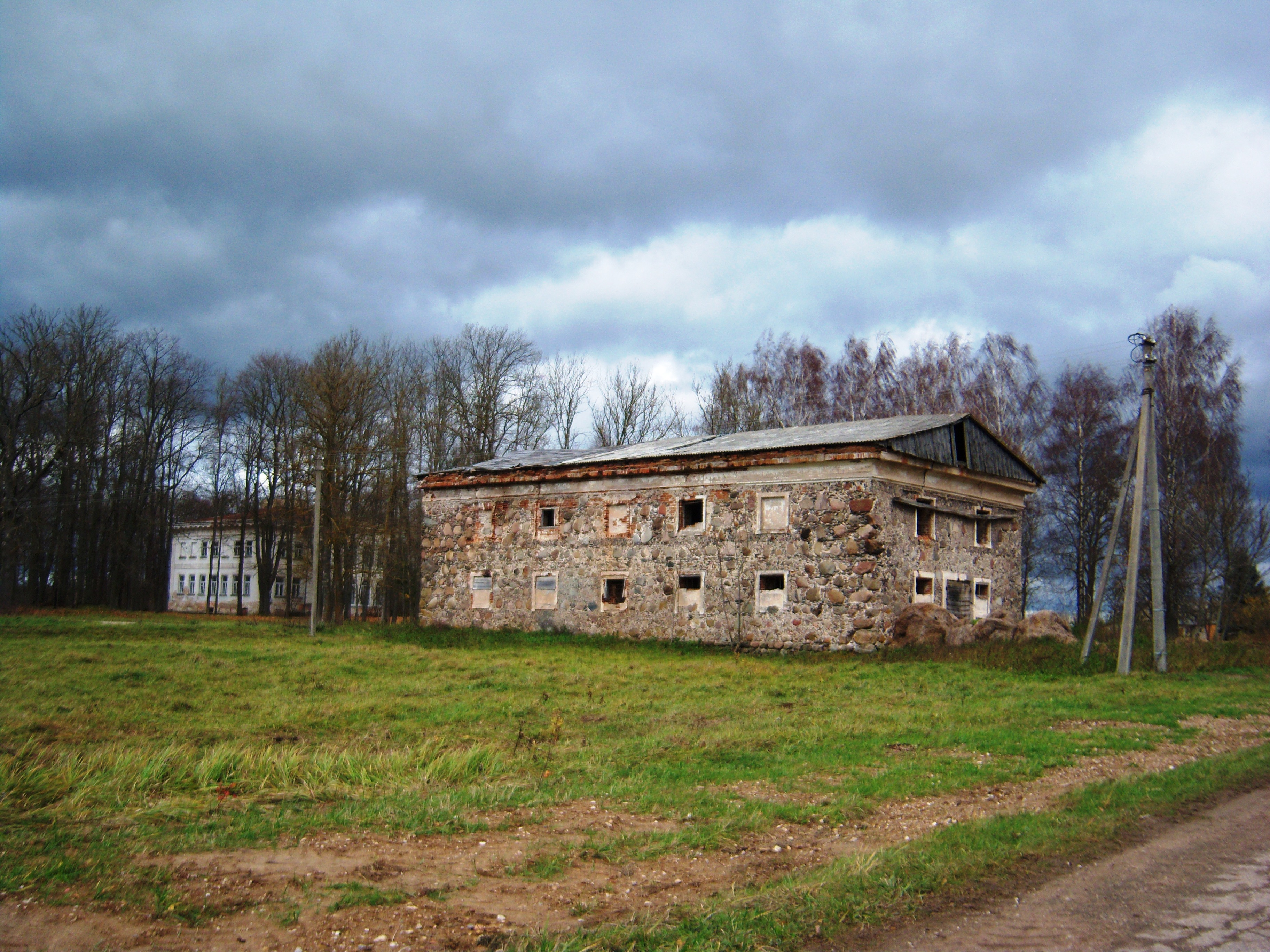 Former manor, barn, Antašava, Kupiškis District, Lithuania